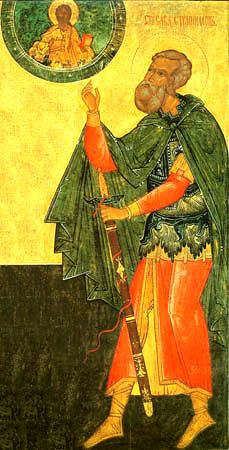 Saint Sabbas Stratelates, Sabbas the General of Rome (d. 272, Tiber River, Rome) — early Christian saint and martyr, was Roman military general under emperor Aurelian. He is the 'twin' of Saint Sabbas the Goth. His martyrdom was followed by 70 Roman soldiers.